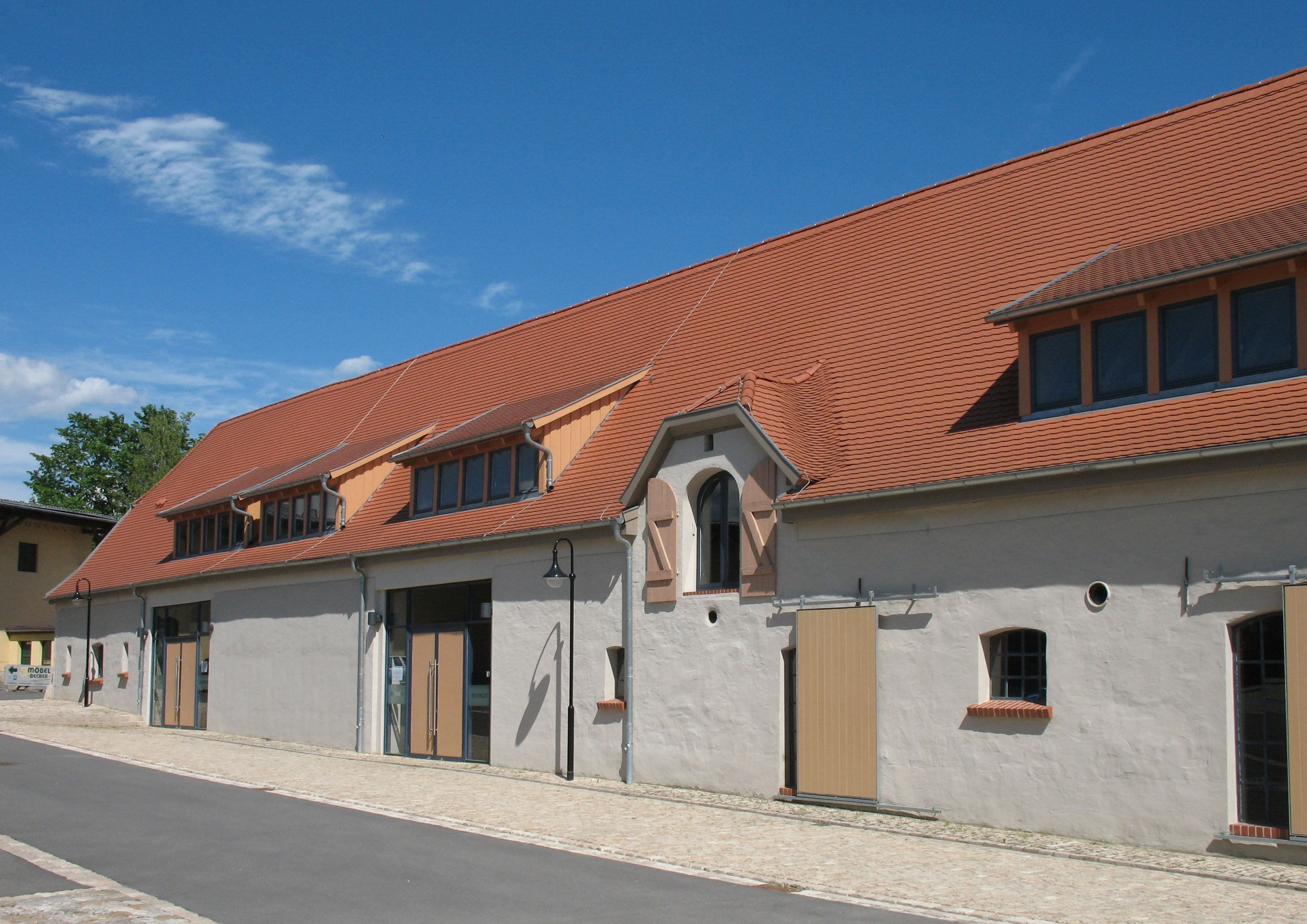 Manor in Kölleda in Thuringia, Germany